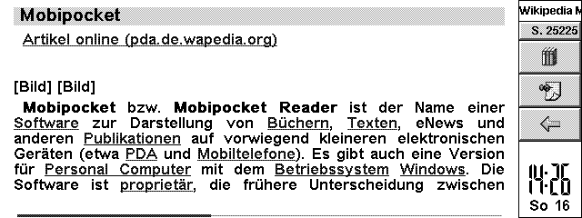 Screenshot Mobipocket Reader Pro 4.8build413 auf Psion Serie 5 classic